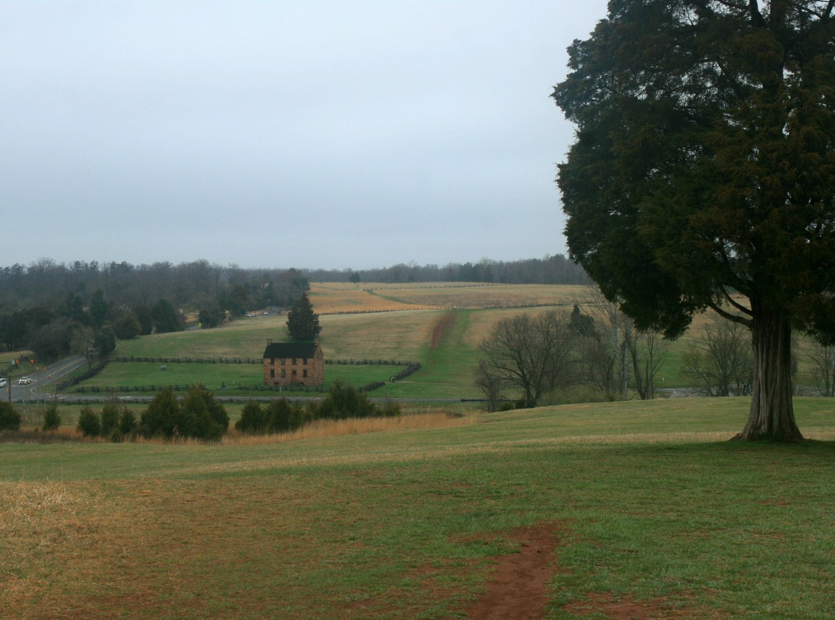 Henry House Hill